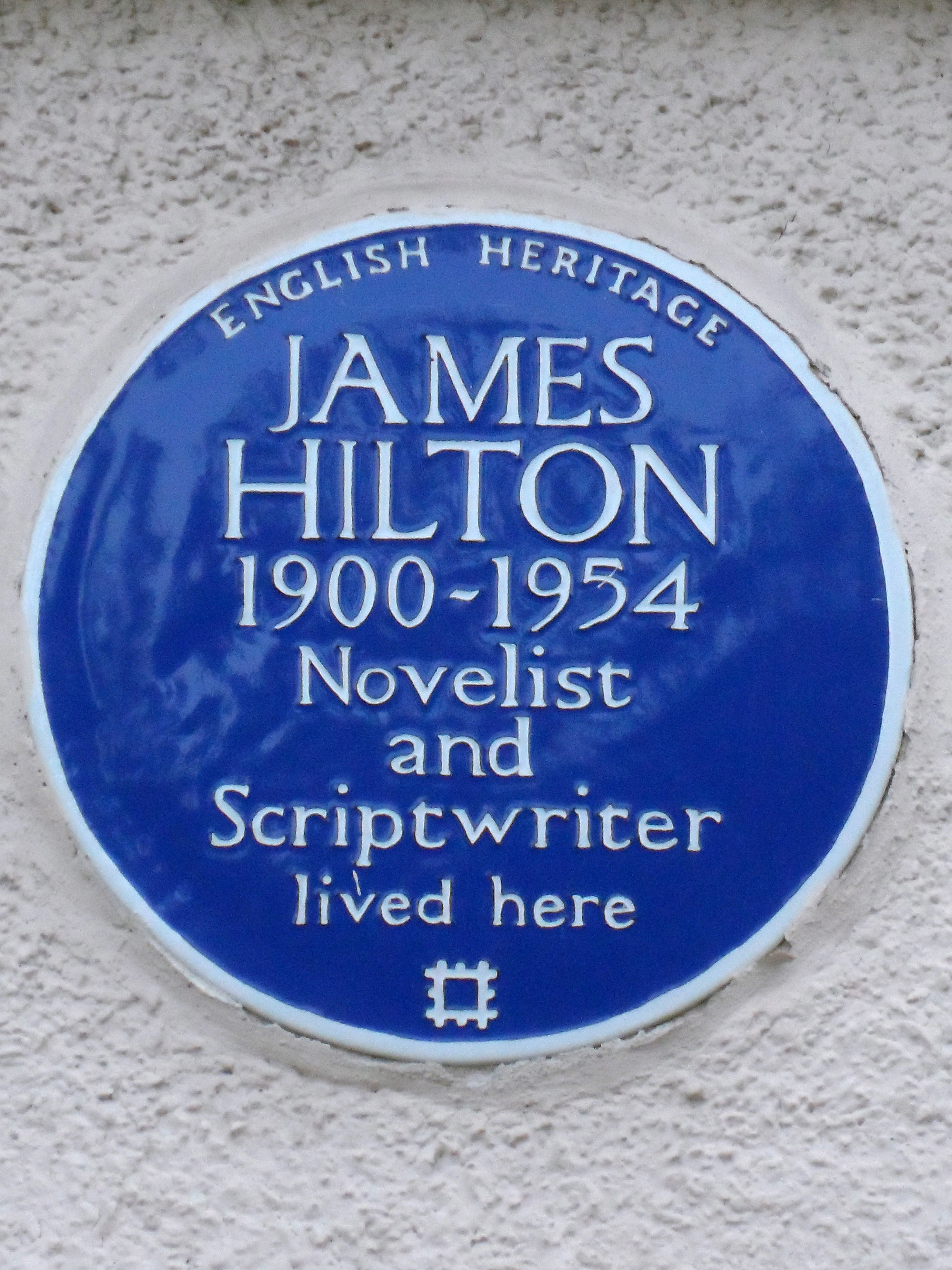 Blue Plaque on former home of James Hilton, author of Lost Horizon and Goodbye Mr Chips